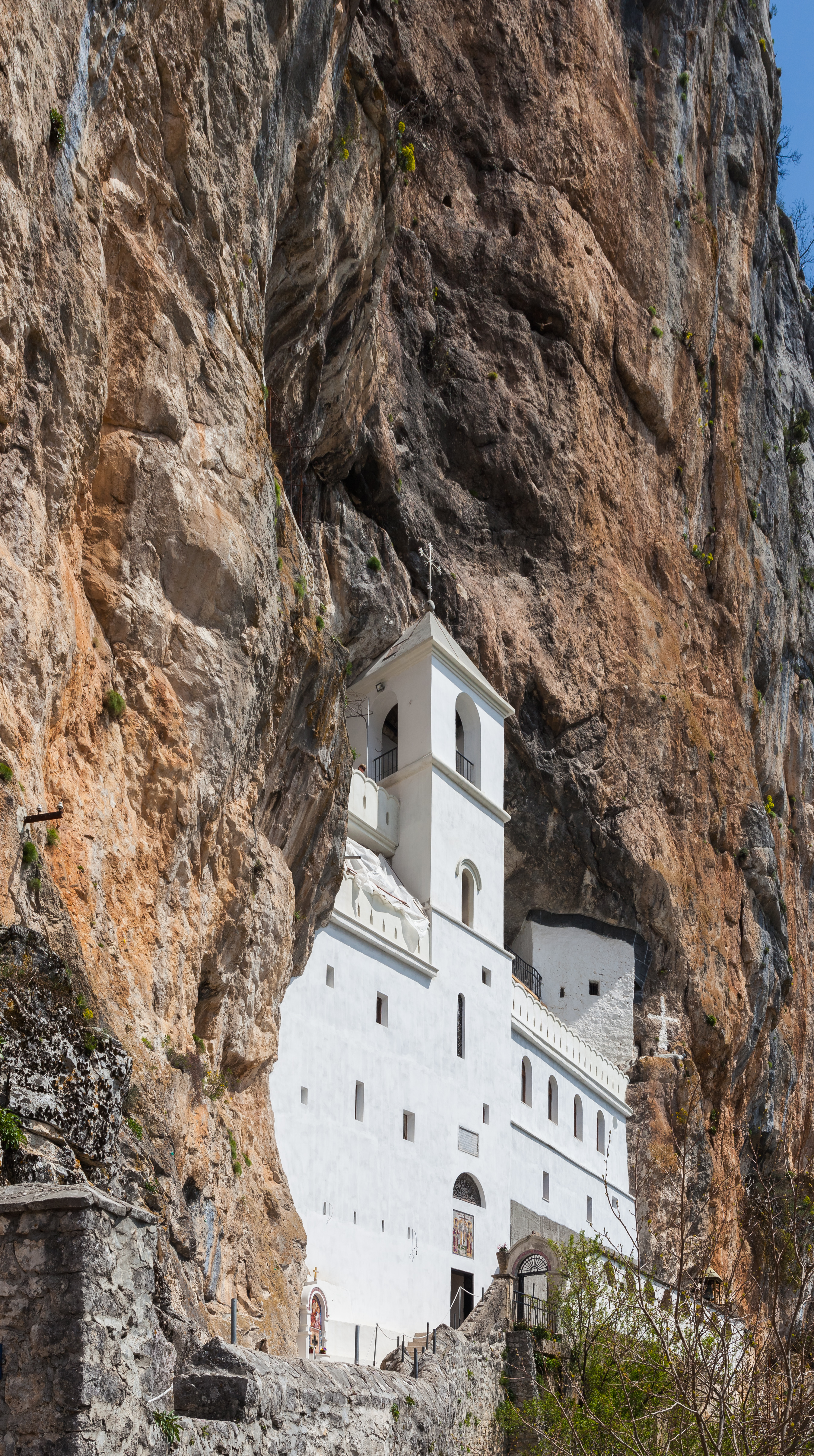 Ostrog monastery, Montenegro